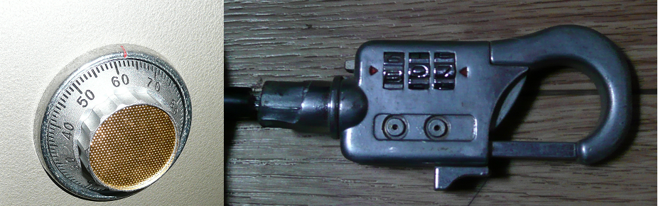 Dial lock